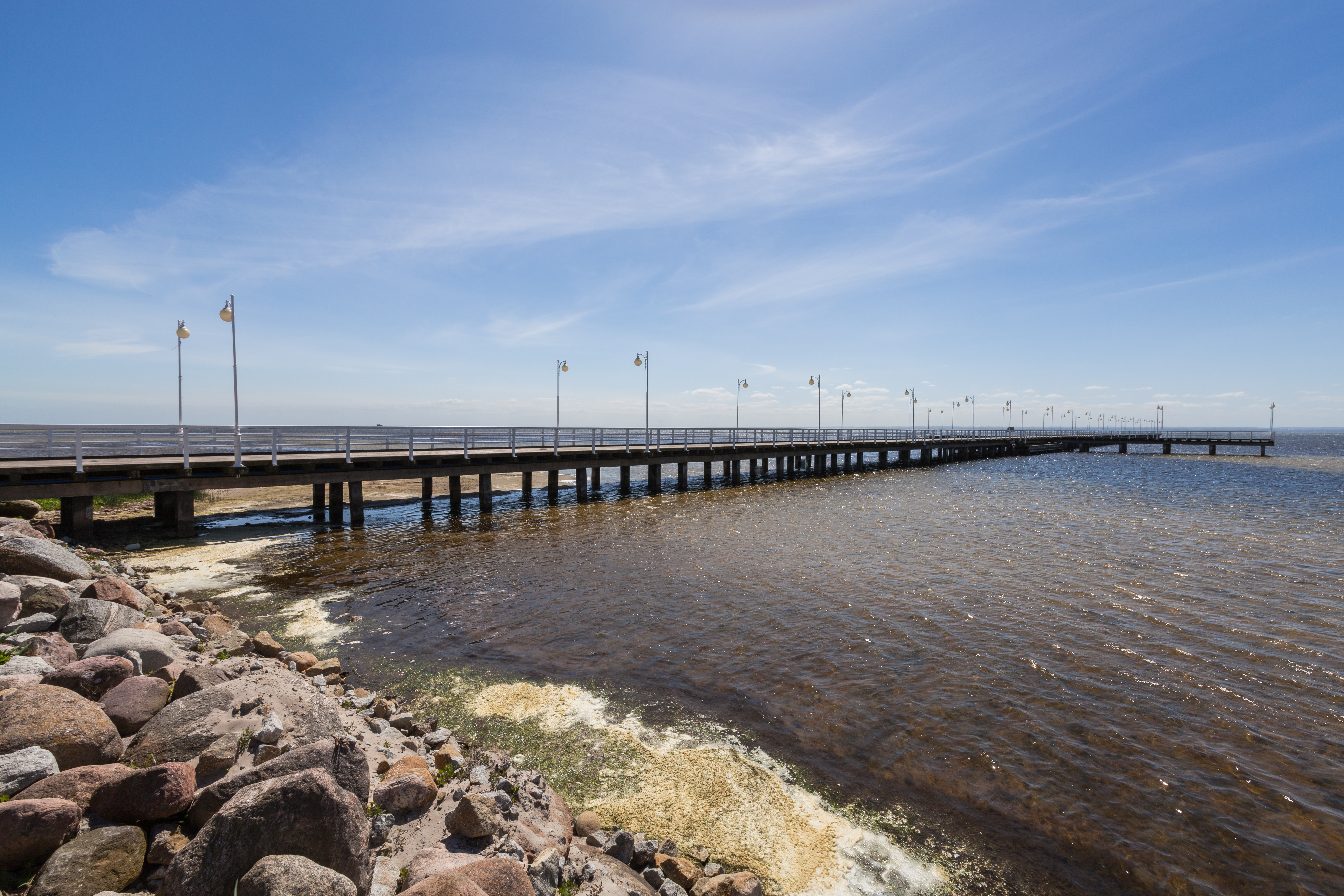 Promenade pier of Jurata, Hel Peninsula, Poland